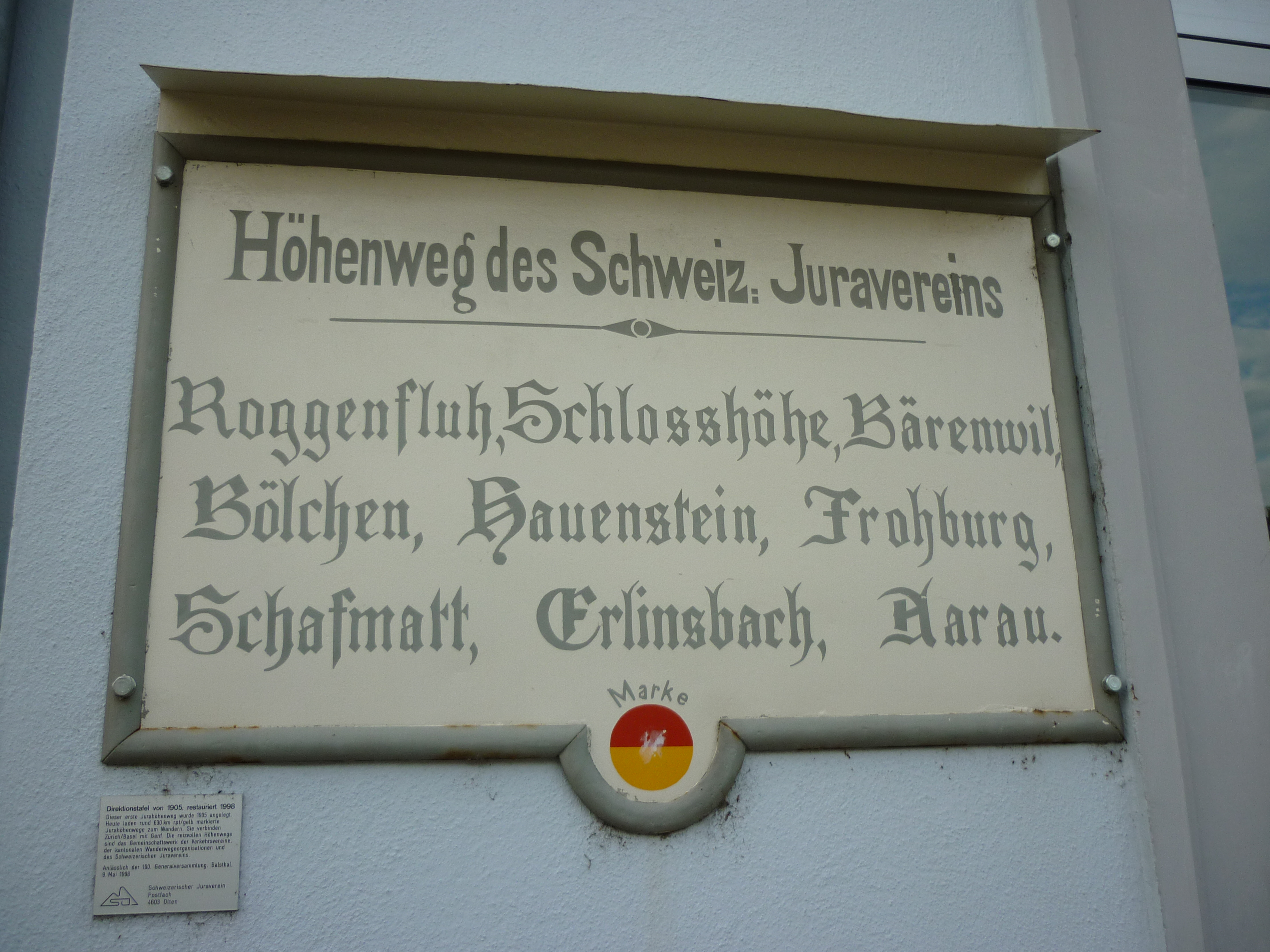 Balsthal SO, Switzerland